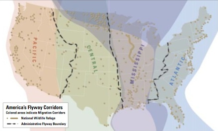 Major flyways of the U.S.